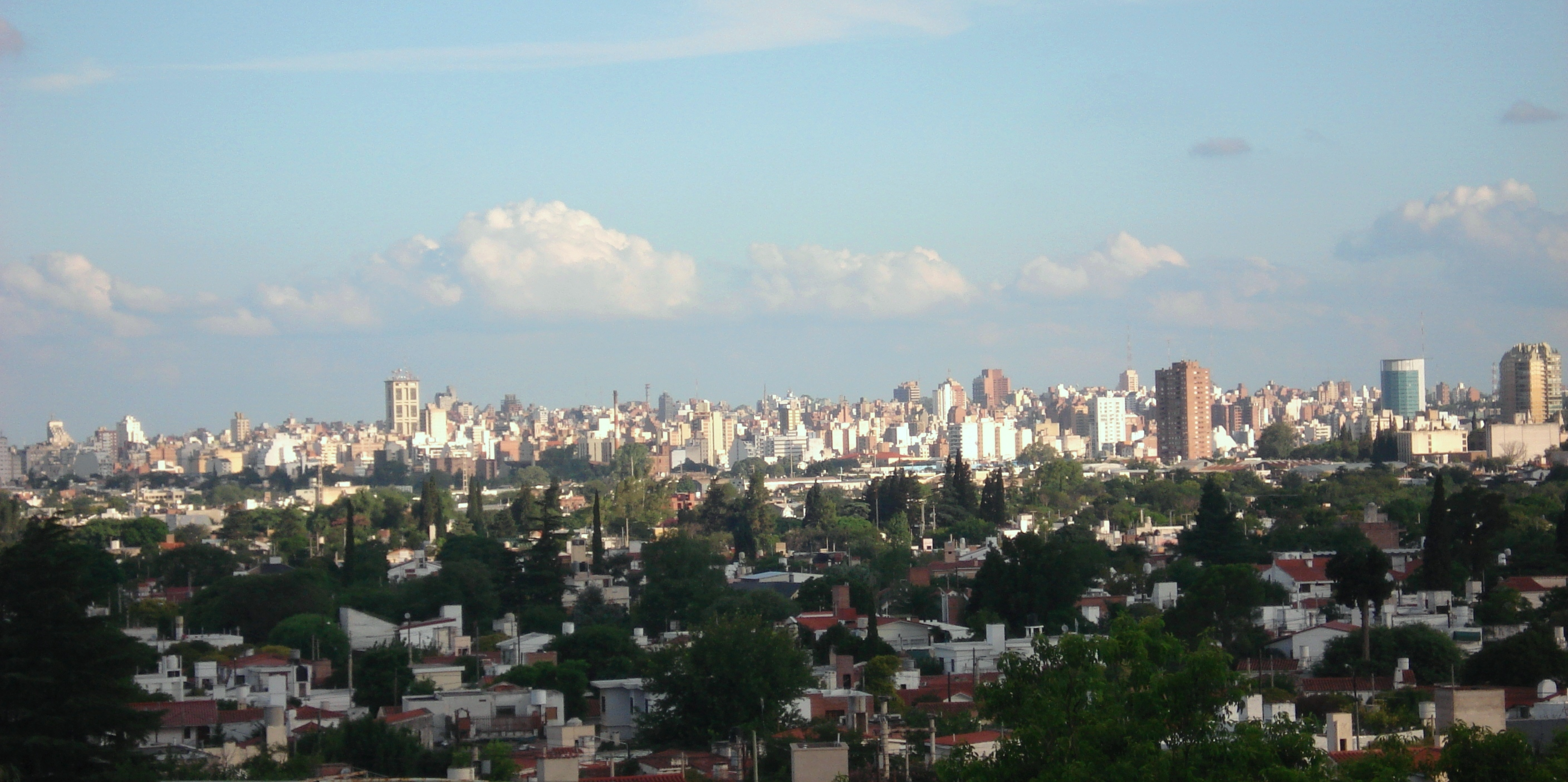 PANORAMICA DE LA CIUDAD DE CORDOBA ARGENTINA